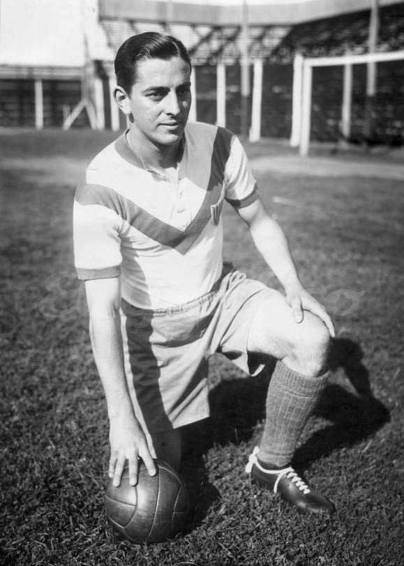 Victorio Spinetto after scoring 4 goals vs Chacarita and becoming the first defender to score that amount of goals in an only match.